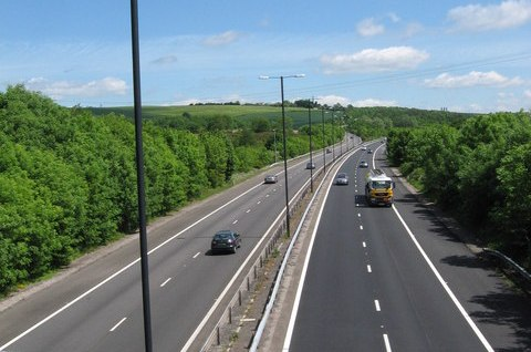 Cropped image of A48(M), looking east near Castleton, Cardiff, Wales